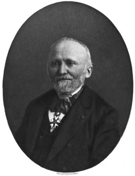 Photograph of Émile Egger (1813-1885), the French philologist